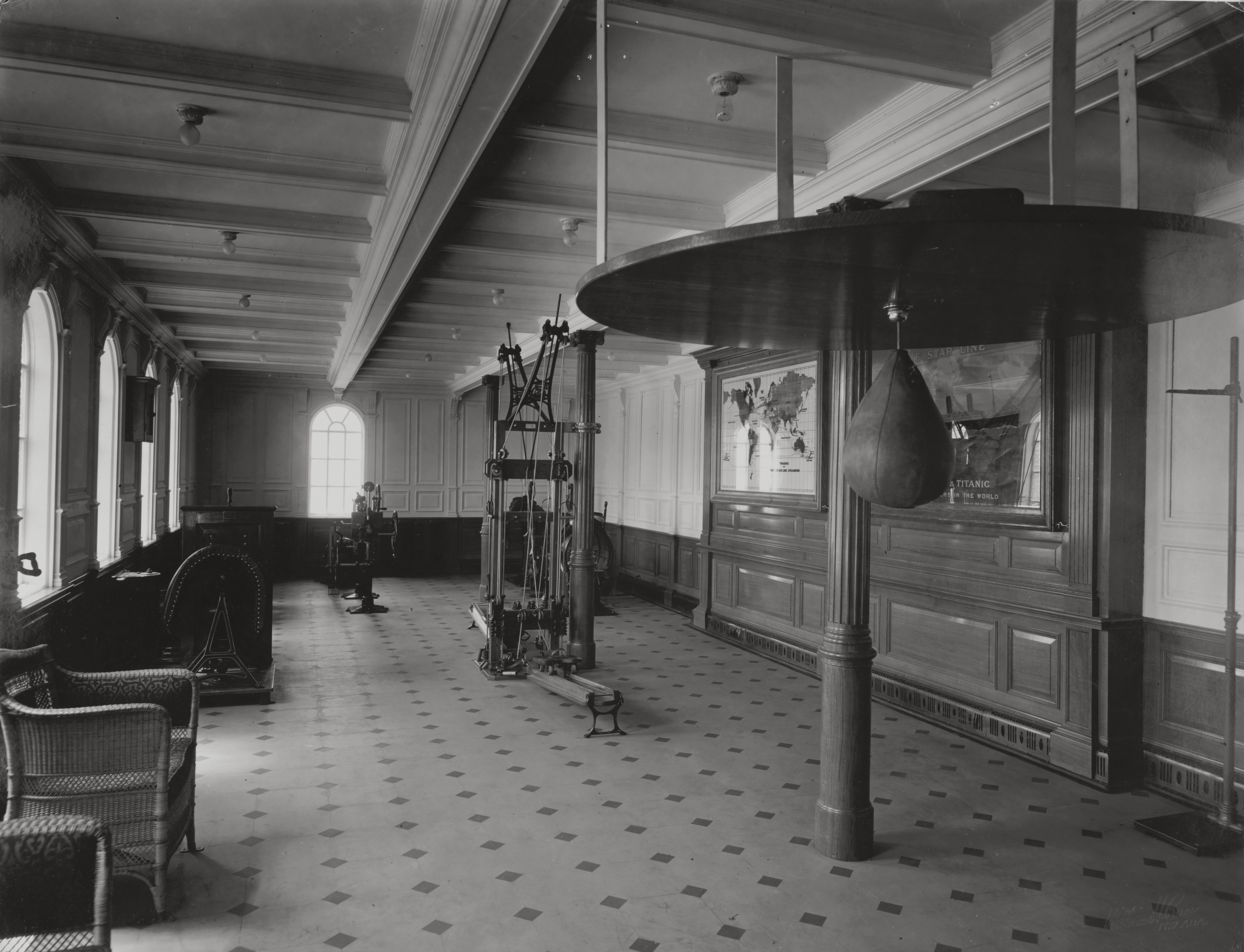 The gymnasium of the RMS Olympic, photographed in 1911 by William H. Rau.